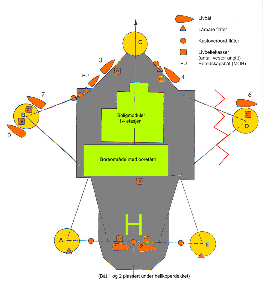 Rescue Stations of the oil rig Alexander L. Kielland - drawing shows liveboats, rafts and live jackets.